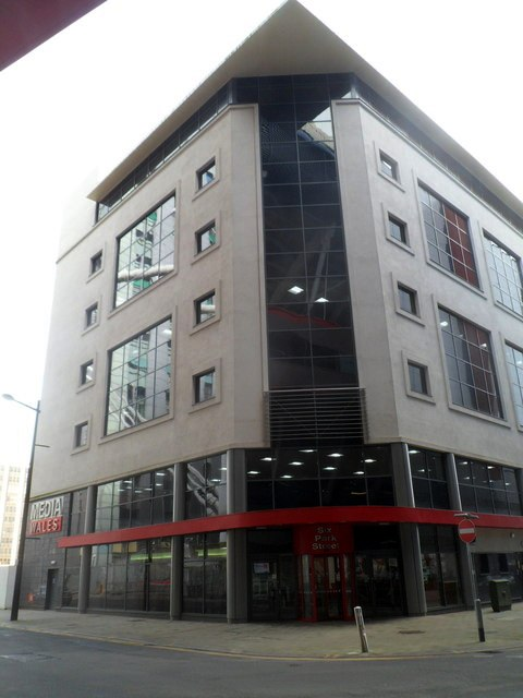 A corner of the Media Wales offices, Cardiff, Wales